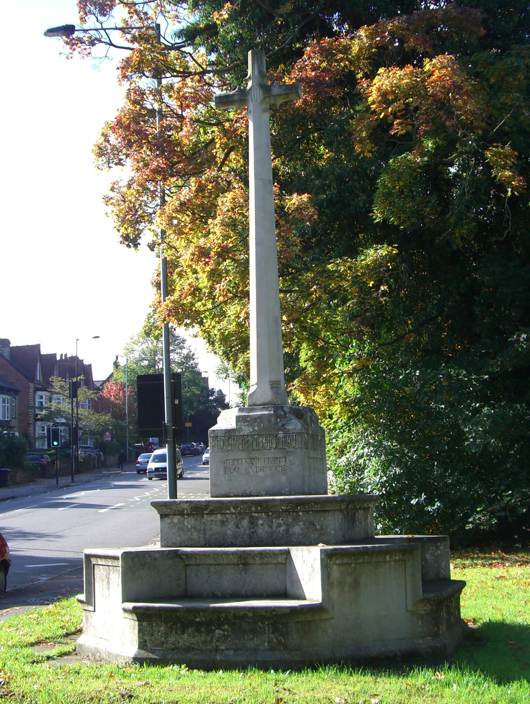 The war memorial just outside Ecclesall church in Sheffield, England. This Grade II Listed structure dates from around 1920.